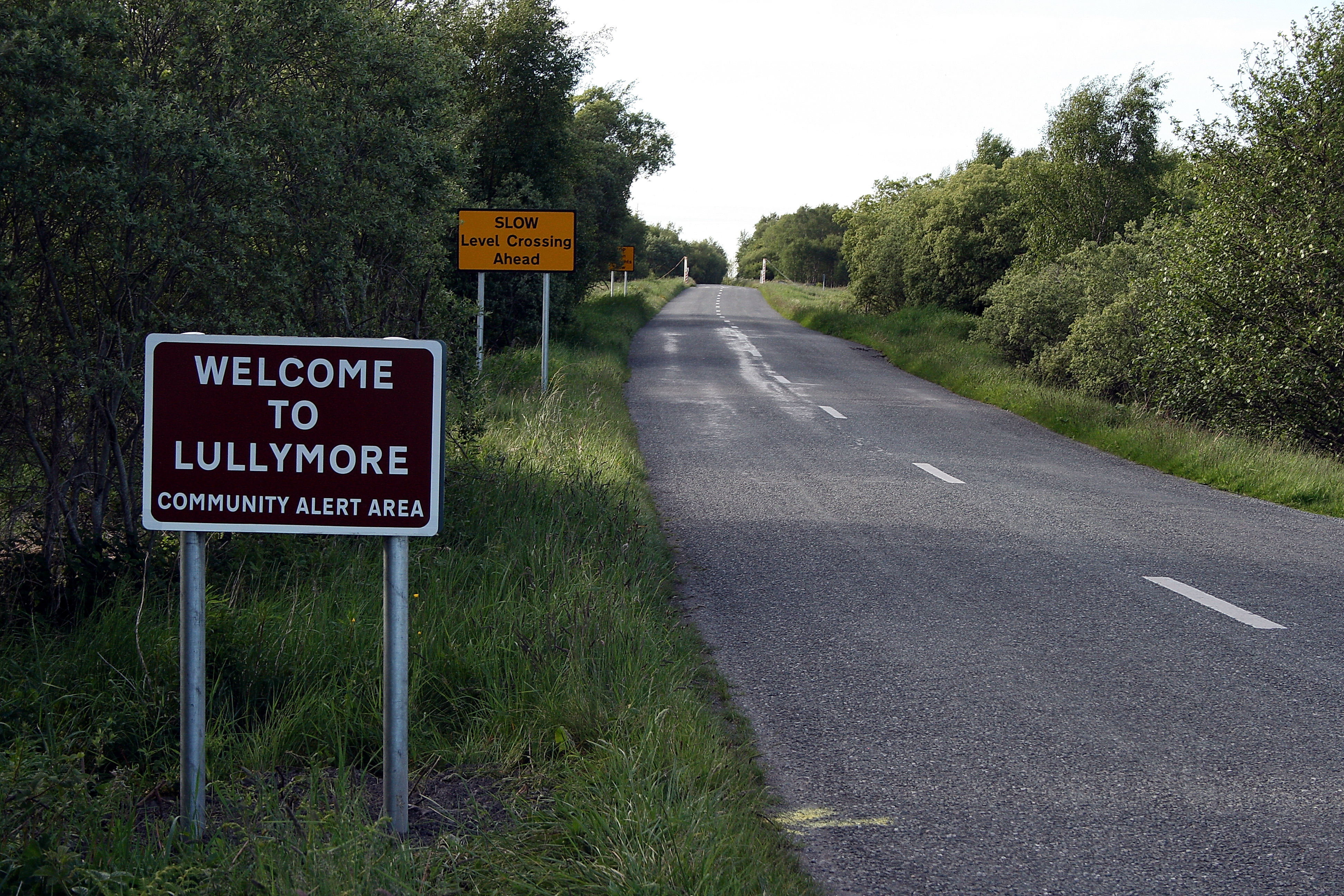 Lullymore, County Kildare, near to Drumsru, Lullybeg and Cappanargid, Kildare, Ireland. On the R414 in the Bog of Allen.